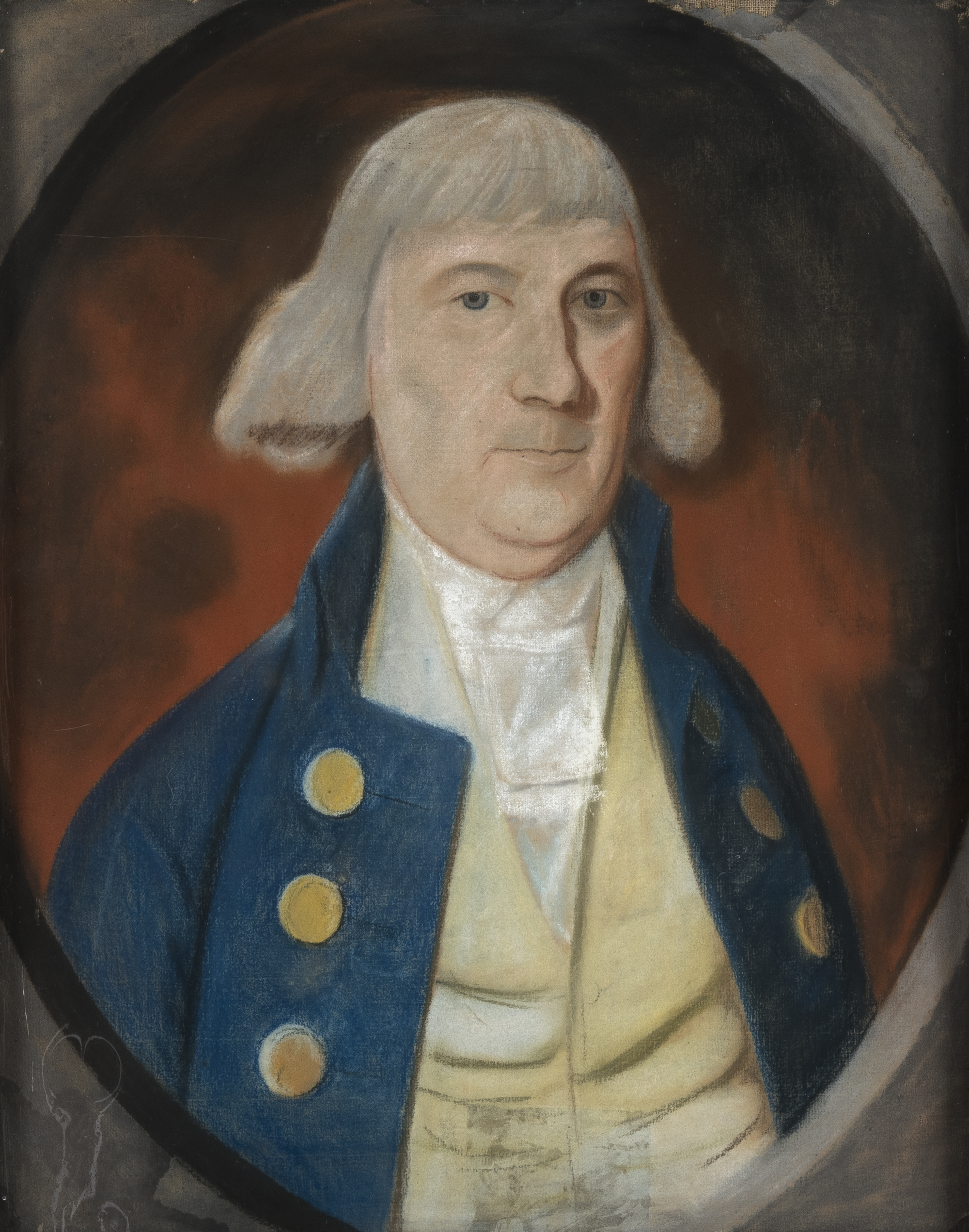 Colonel John Jameson Artist/Maker:Williams, William Joseph Place Made:Culpeper County Virginia United States of America Date Made:1793-1794 Medium:pastel on paper –canvas Dimensions:HOA: 21 5/8; WOA: 17 Accession Number:2961.1